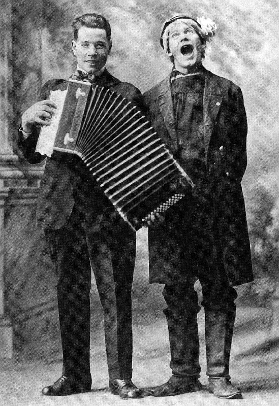 Hjalmar Peterson, aka Olle i Skratthult (1886 – 1960) (right) with Gustav Nyberg (left). Period photo in costume.